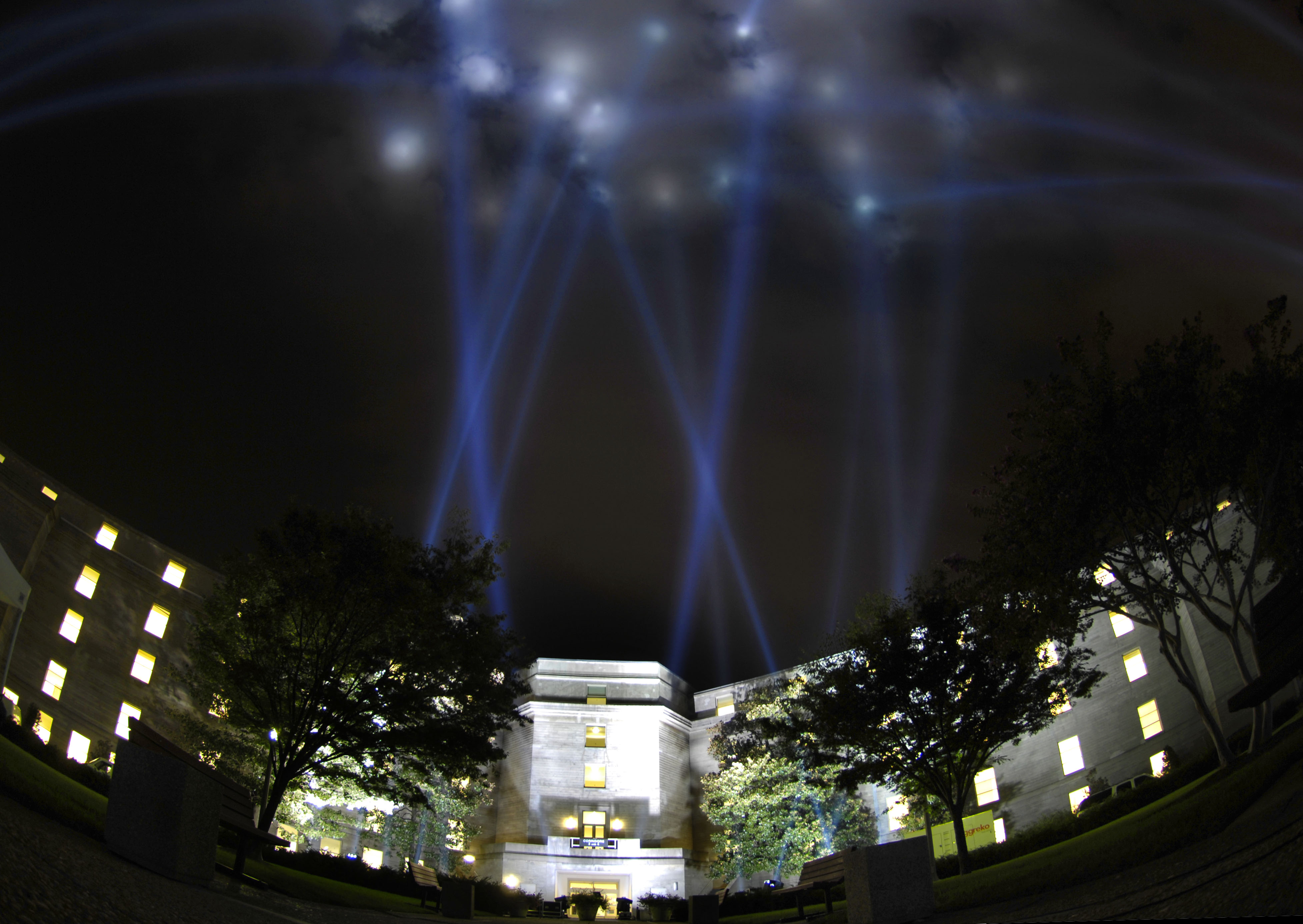 One-hundred-eighty-four beams of light project from the Pentagon courtyard at the Pentagon, Sept. 10, 2006, in honor of those who lost their lives from the 9/11 terrorists attack at the Pentagon. Events included a Freedom Walk from the Washington Monument to the Pentagon and a concert in support of our troops.